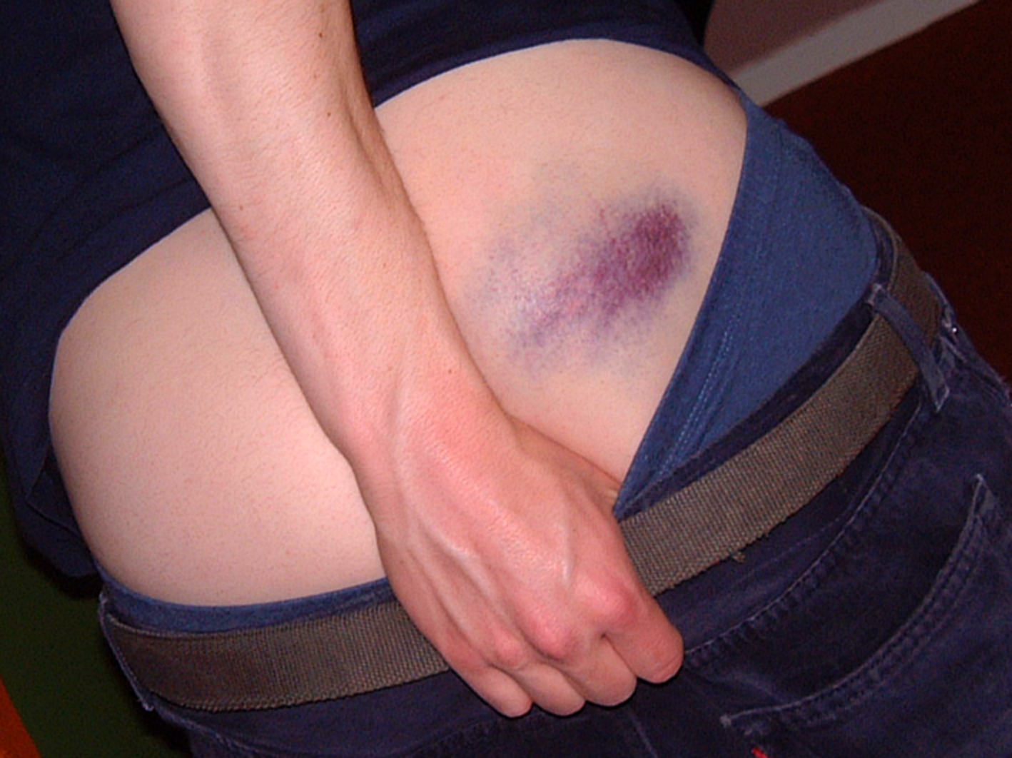 Hematoma at right backside due to extraneous cause.